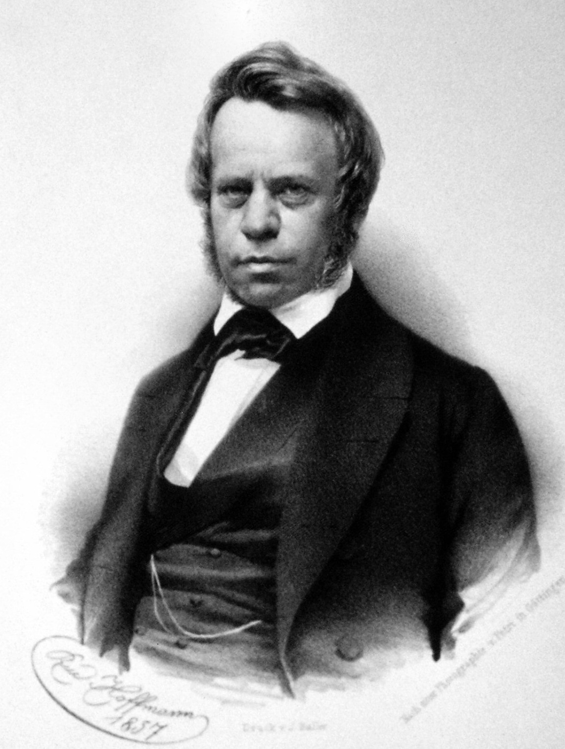 Jakob Henle (1809-1895), Anatomist, Pathalogist, Lithography by Rudolf Hoffmann, 1857. After a Photo by Petri (Göttingen) From "Gallerie ausgezeichneter Naturforscher" published in Vienna